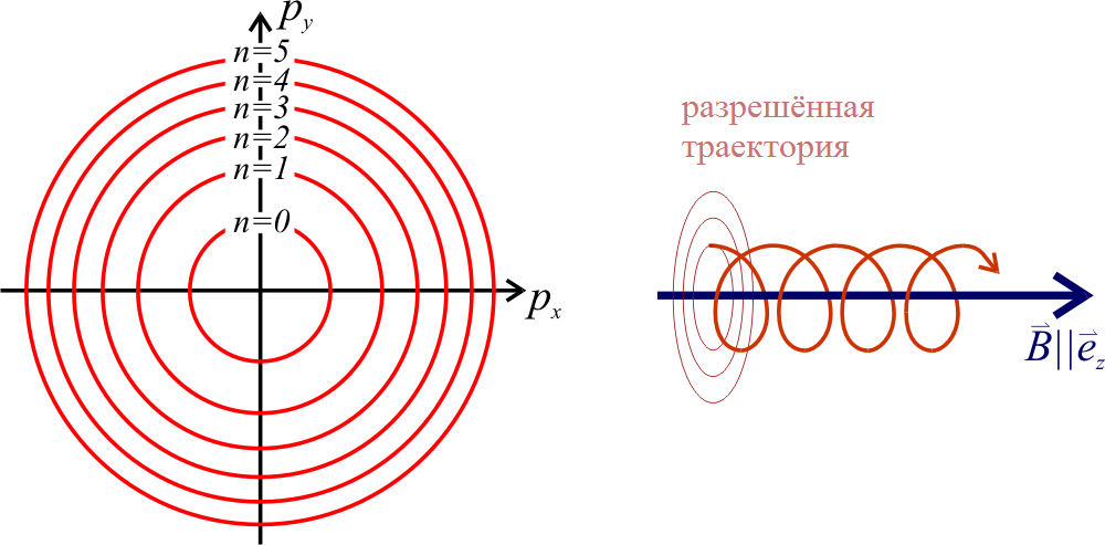 Landau levels